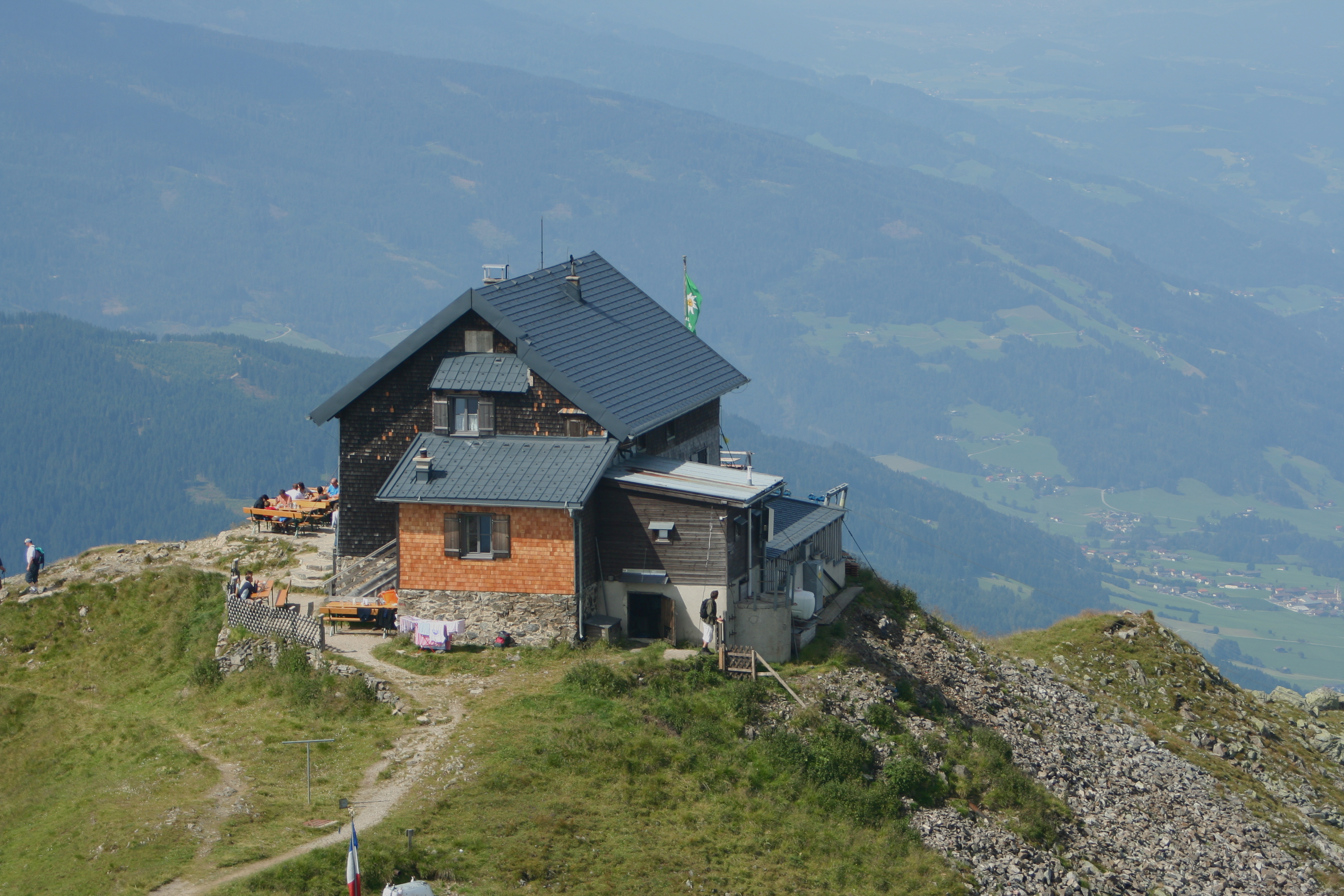 The Kellerjochhütte on the Kellerjoch in the Tuxer Alps near Schwaz, Tyrol